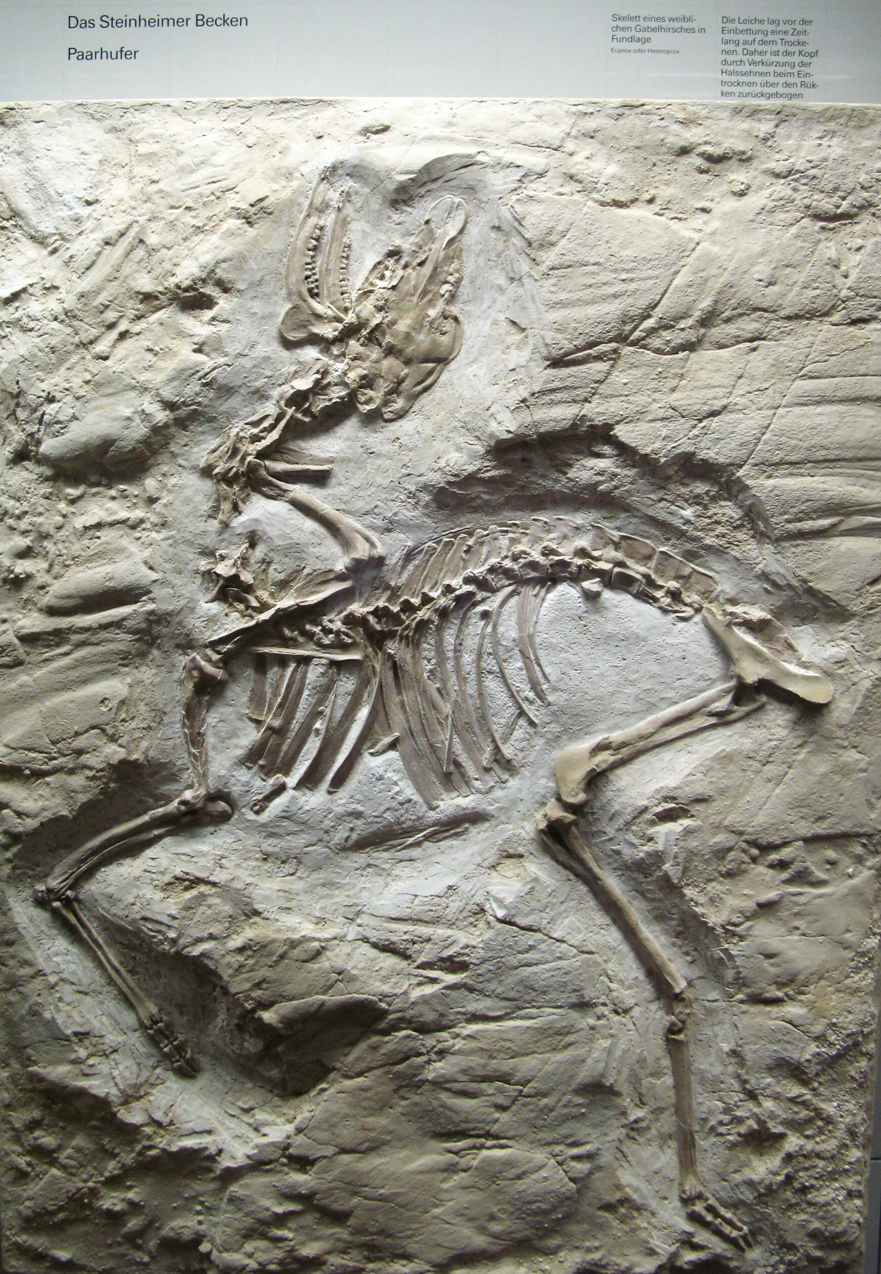 Euprox or Heteroprox Tertiary, Museum am Löwentor, Stuttgart